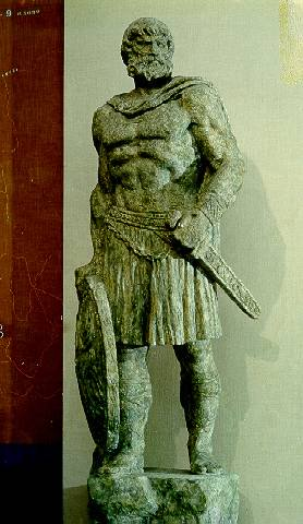 The chieftain of the Illyrian tribe of the Daesitiates, Bato the Daesitiate. This sculpture is visible in the National Museum of History of Albania in Tirana.